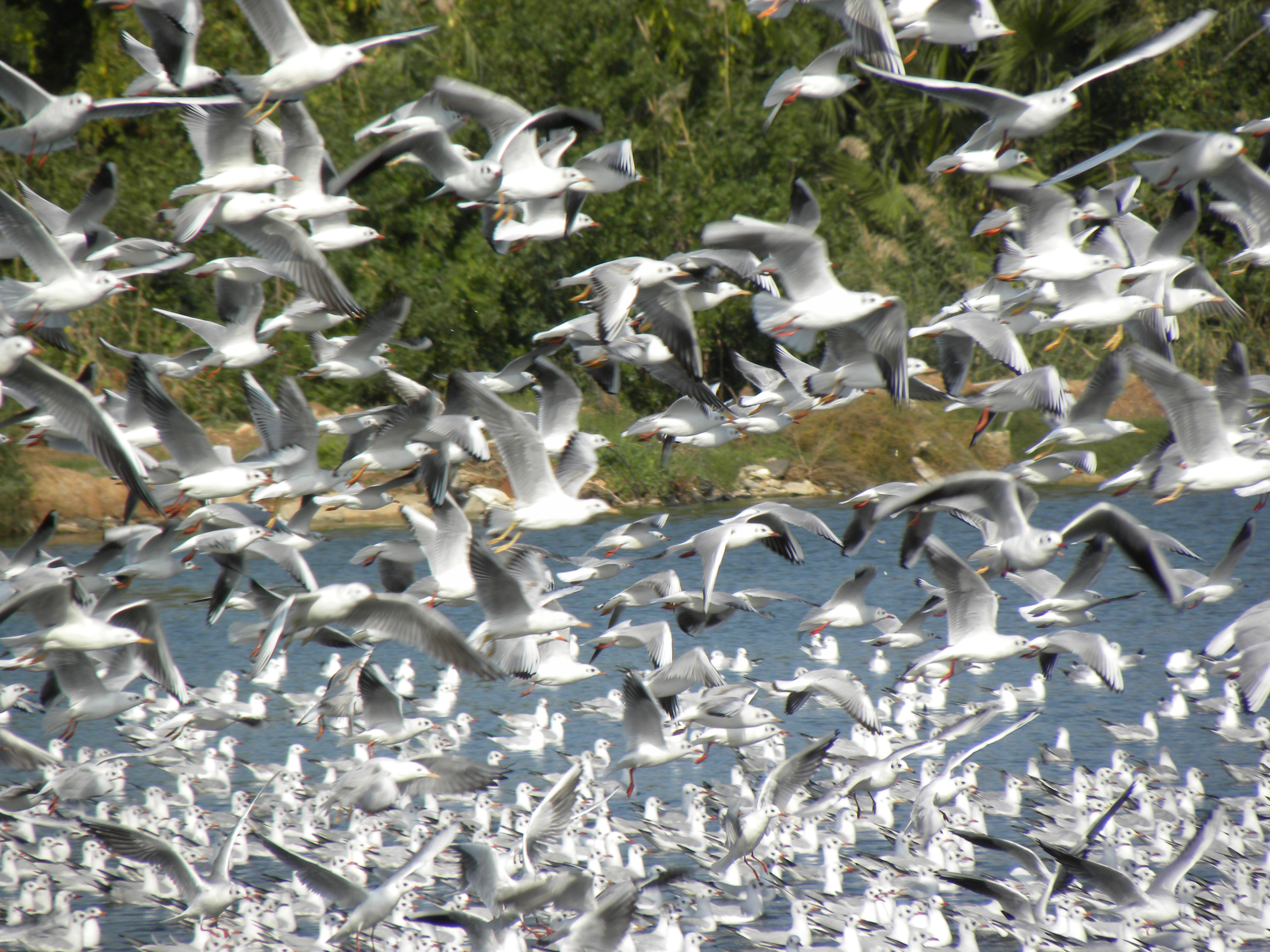 Black-headed Gulls and a few Slender-billed Gulls (see notes)